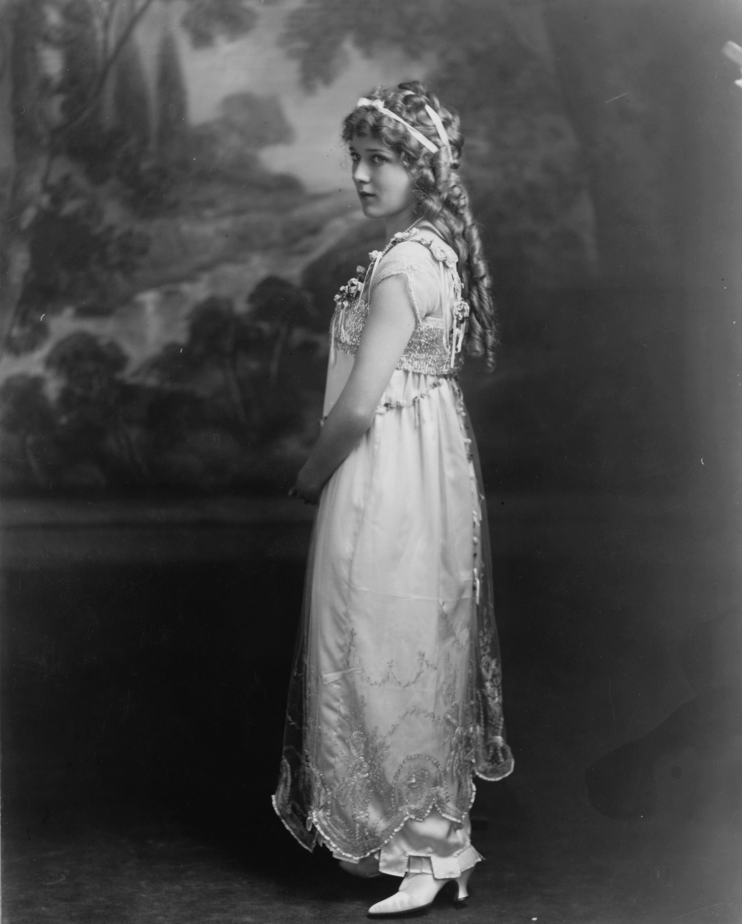 Mary Pickford, full-length portrait, facing left